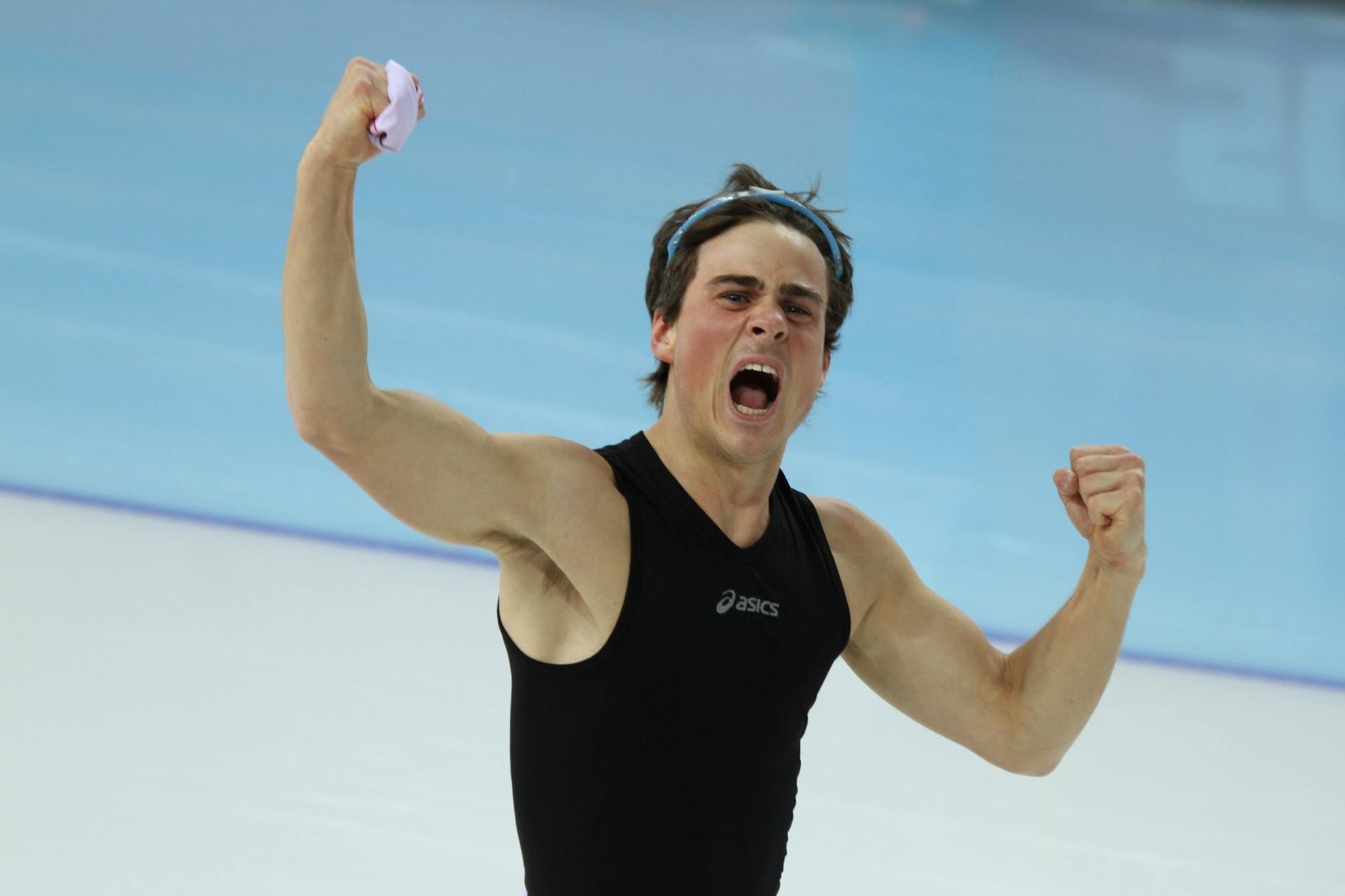 Men's 500m, 2014 Winter Olympics, Jan Smeekens thought temporary that he had won the gold medal